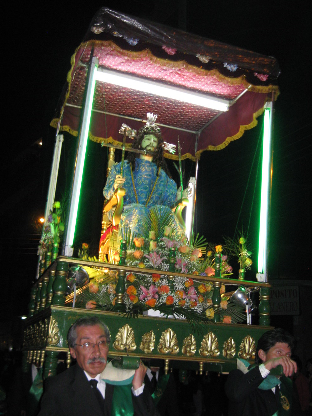 Procesión Viernes Santo 1